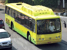 A low floor DTC Bus on a trial run. Buses like this one will be operational across the city before the Commonwealth Games in 2010